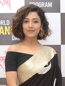 Neeti Mohan attends Shakti Mohan’s Nritya Shakti celebrations for World Dance Day, Apr 30, 2018